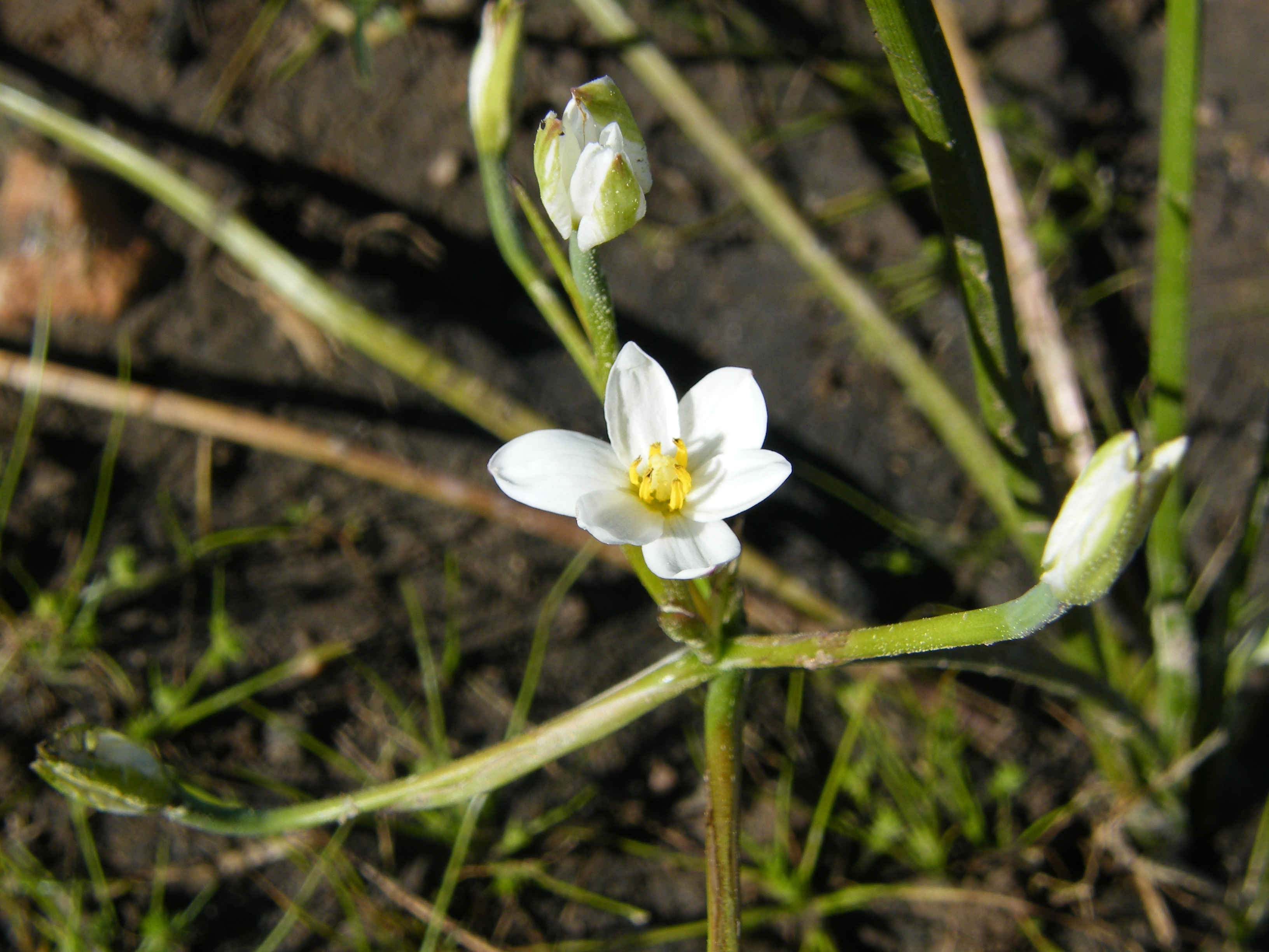 Spiloxene